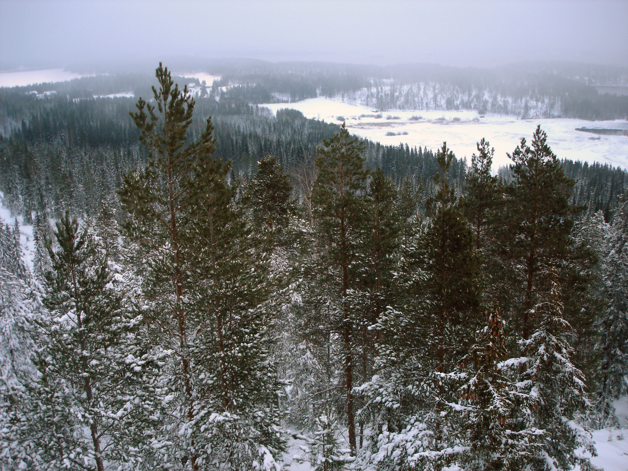 Landscape of Korpilahti, Finland, seen from observation tower on top of mount Oravivuori